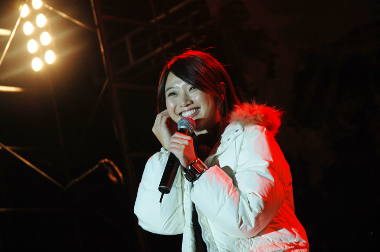 Kaira Gong during a concert in a Singaporean school.